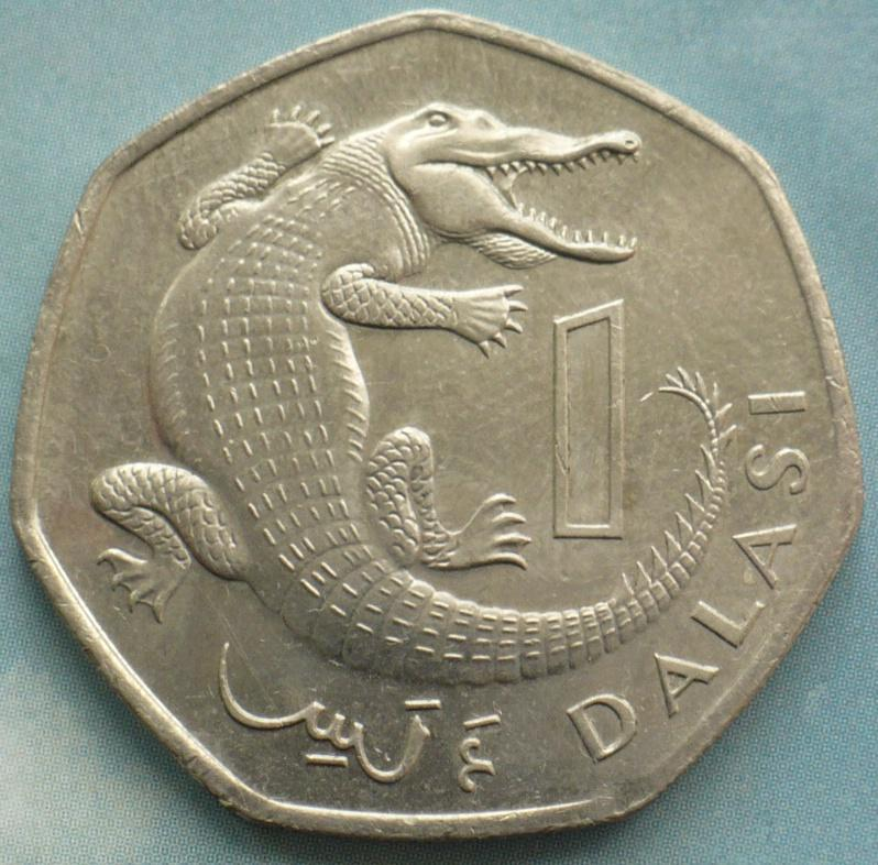 Gambia 1 dalasi